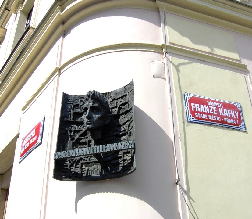 Metal-Plate in memory of Franz Kafka in Prag